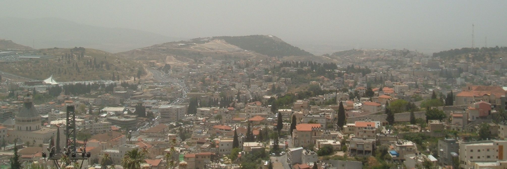 mount precipice as seen from Salesian church nazareth הר הקפיצה כפי שהוא נראה מהתצפית בכנסייה הסלזיאנית בנצרת